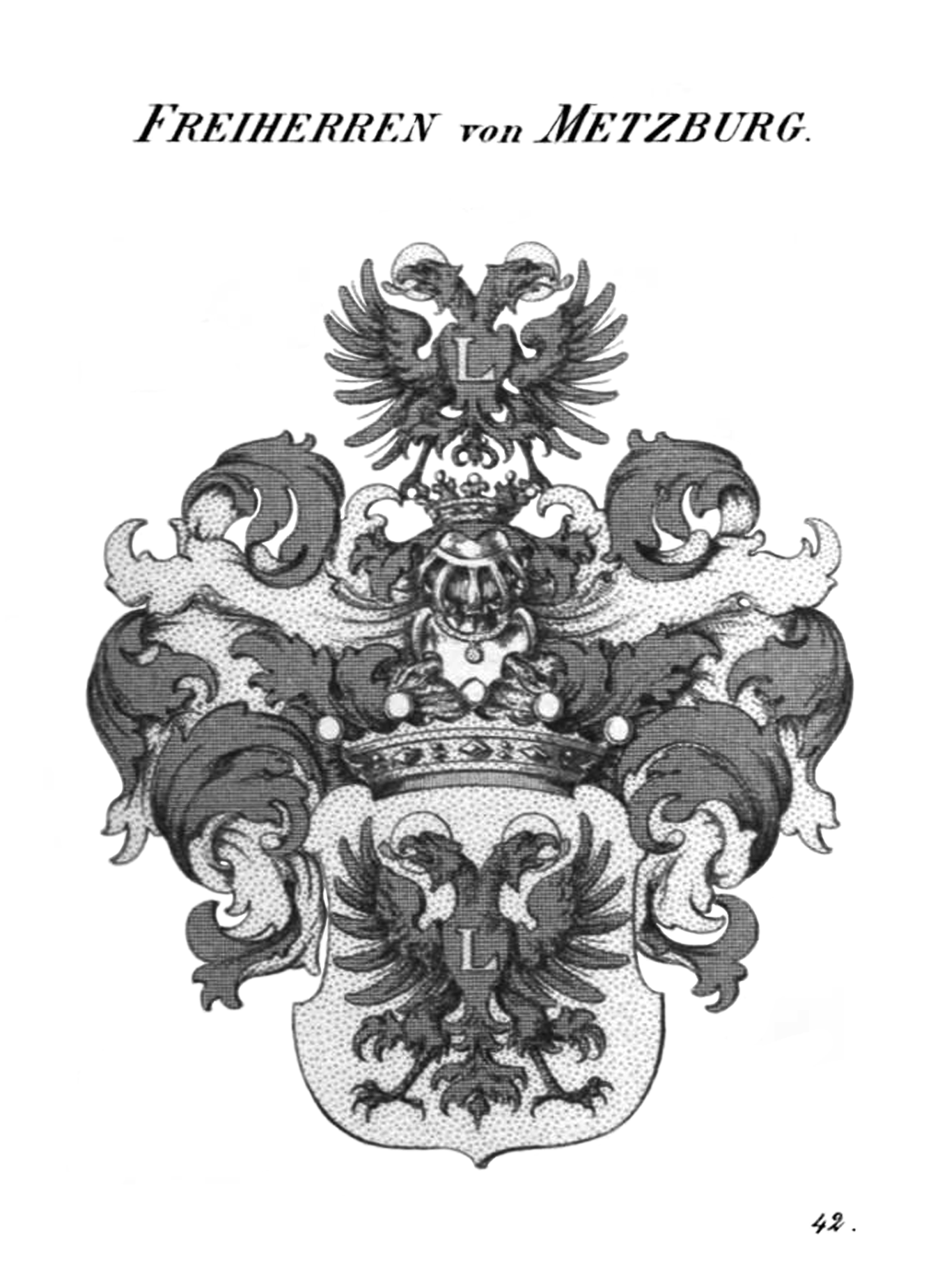 Coat of arms of Metzburg (Barons)